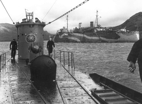 HNLMS O 19 a Gibraltar with at the background HMS Maidstone